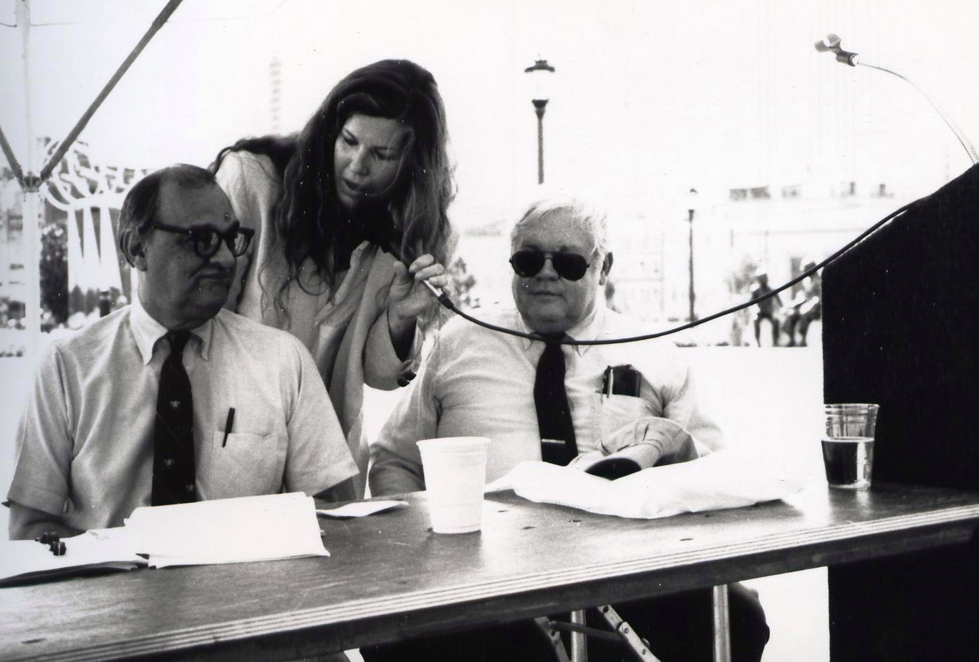 New Orleans: Music history discussion presentation in Waldenberg Park. Left to right, music historian and author Donald Marquis, artist and promoter Dawn Dedeaux, music historian Richard B. Allen.